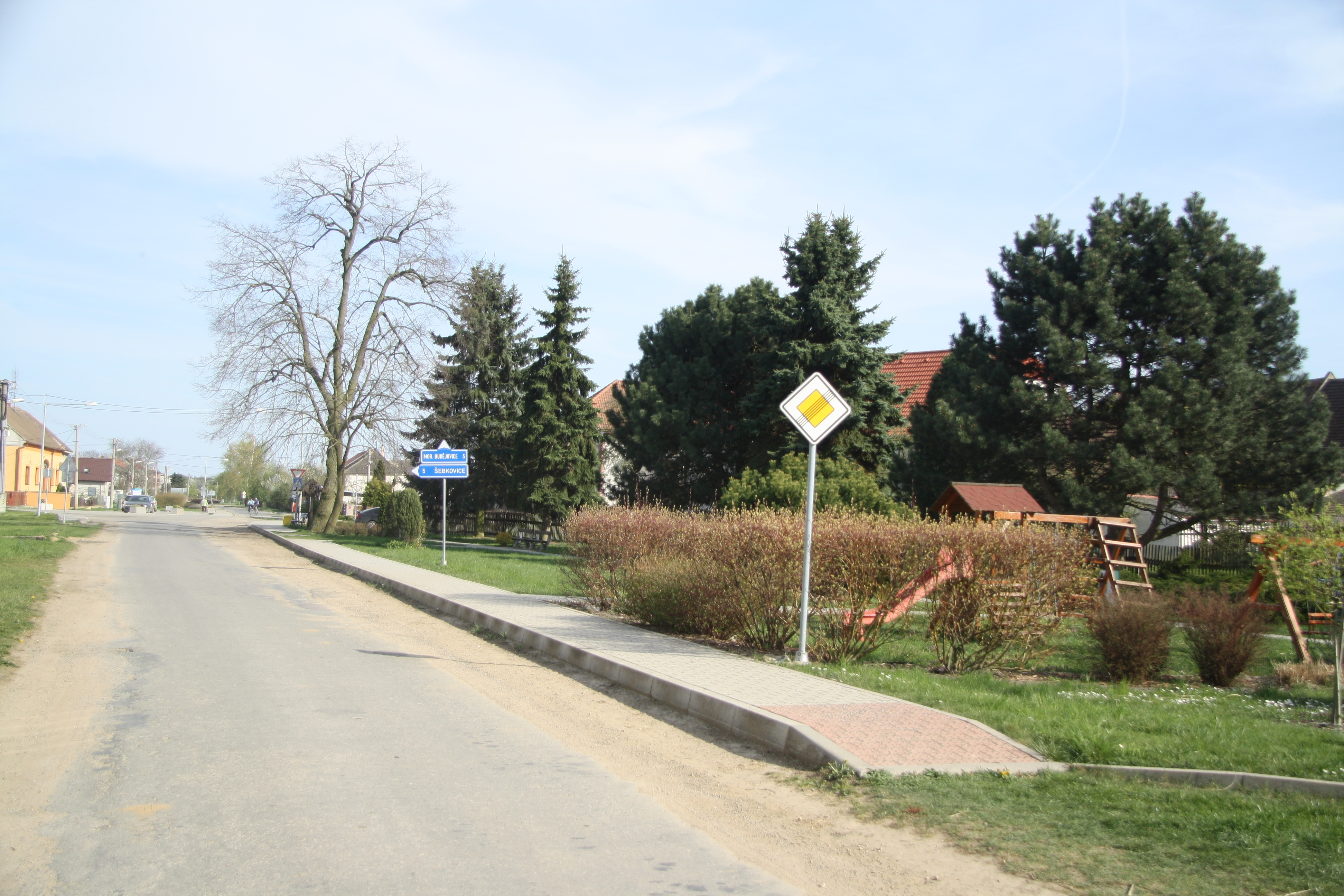 Center of Vícenice, Třebíč District.